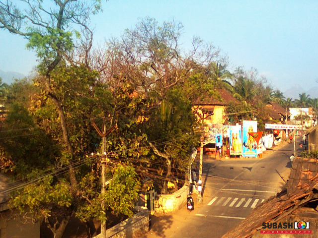 This Photo was taken at Eraniel and this is Eraniel Junction